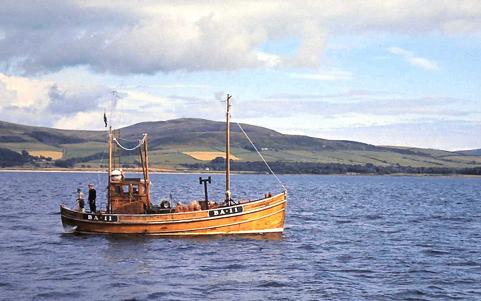 Mizpah BA-11, built by Noble of Girvan in 1949. Seen here on the Clyfe near Millport